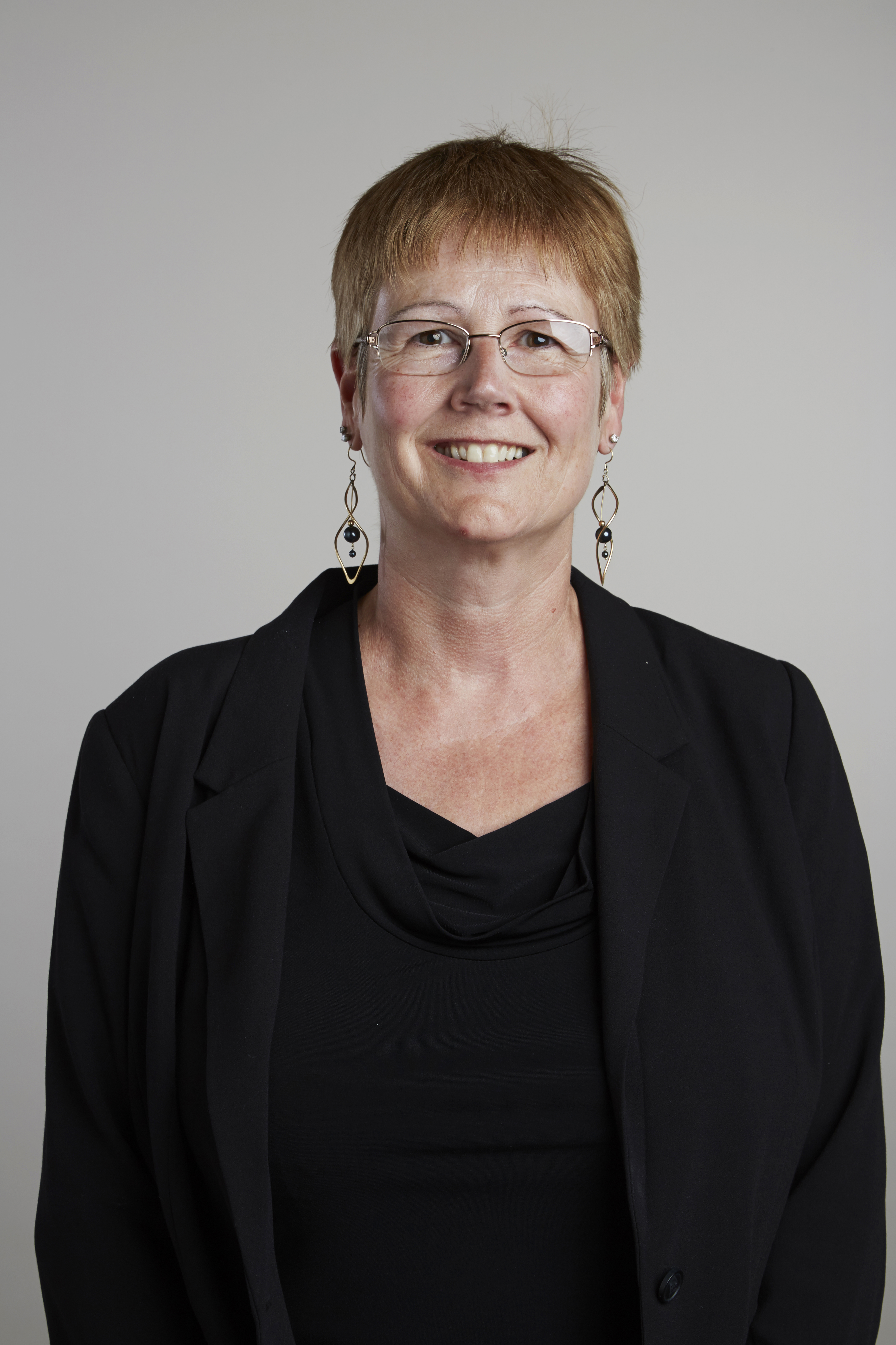 Jane Langdale graduated from the University of Bath with a BSc in applied biology, specialising in microbiology. She then obtained a PhD in human genetics at the University of London, which she followed by a postdoctoral position at Yale University on the molecular and genetic basis of plant development. After being awarded an Independent Research Fellowship, she returned to the United Kingdom in 1990 to set up her own group in the Plant Sciences Department at the University of Oxford. In 1994, Jane was appointed University Lecturer in the department and a Tutorial Fellow of The Queen’s College, Oxford. She became Professor of Plant Development and Senior Research Fellow at Queen’s in 2006. Jane was Head of Department of Plant Sciences from 2007–2012, founding Director of the Oxford Martin School’s Plants for the 21st Century Institute, and Associate Head of the Mathematical, Physical and Life Sciences Division from 2008–2013. She has advised the Gatsby Charitable Foundation’s Plant Science Programme since 1997 and was elected a Member of EMBO in 2007. Attribution: The Royal Society